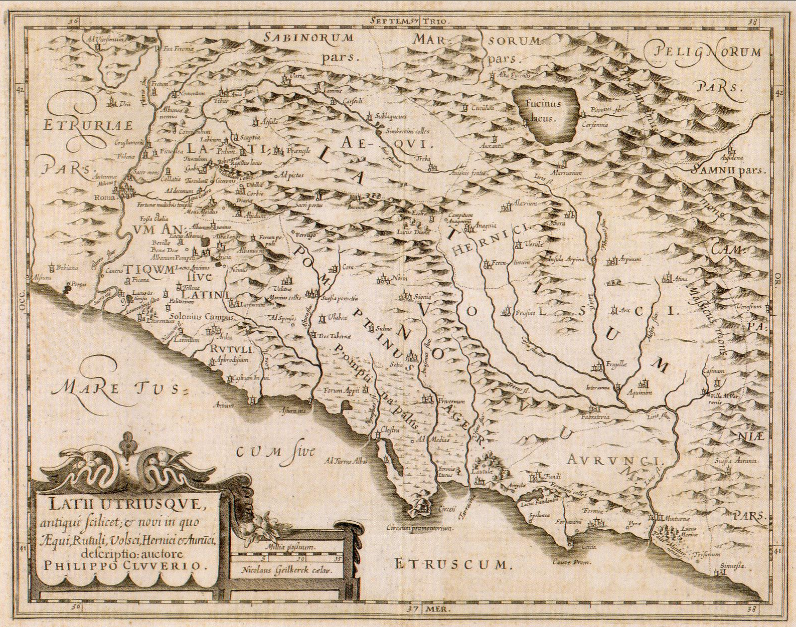 Philipp Clüver, "Latium Utriusque" from "Italia Antiqua", Leiden 1624